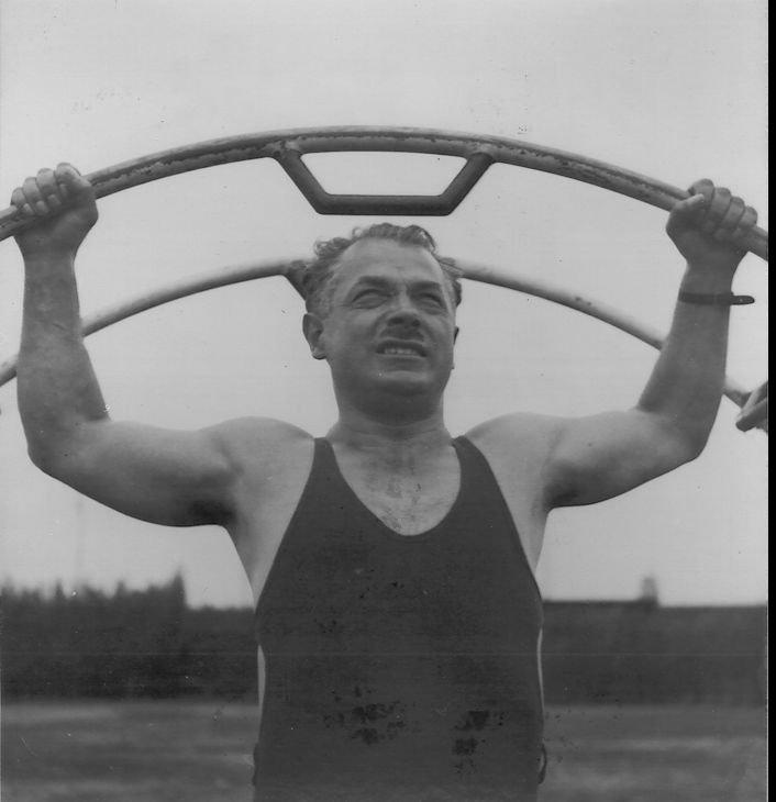 The inventor Otto Feick in one of his German Wheels (Rhönrad).